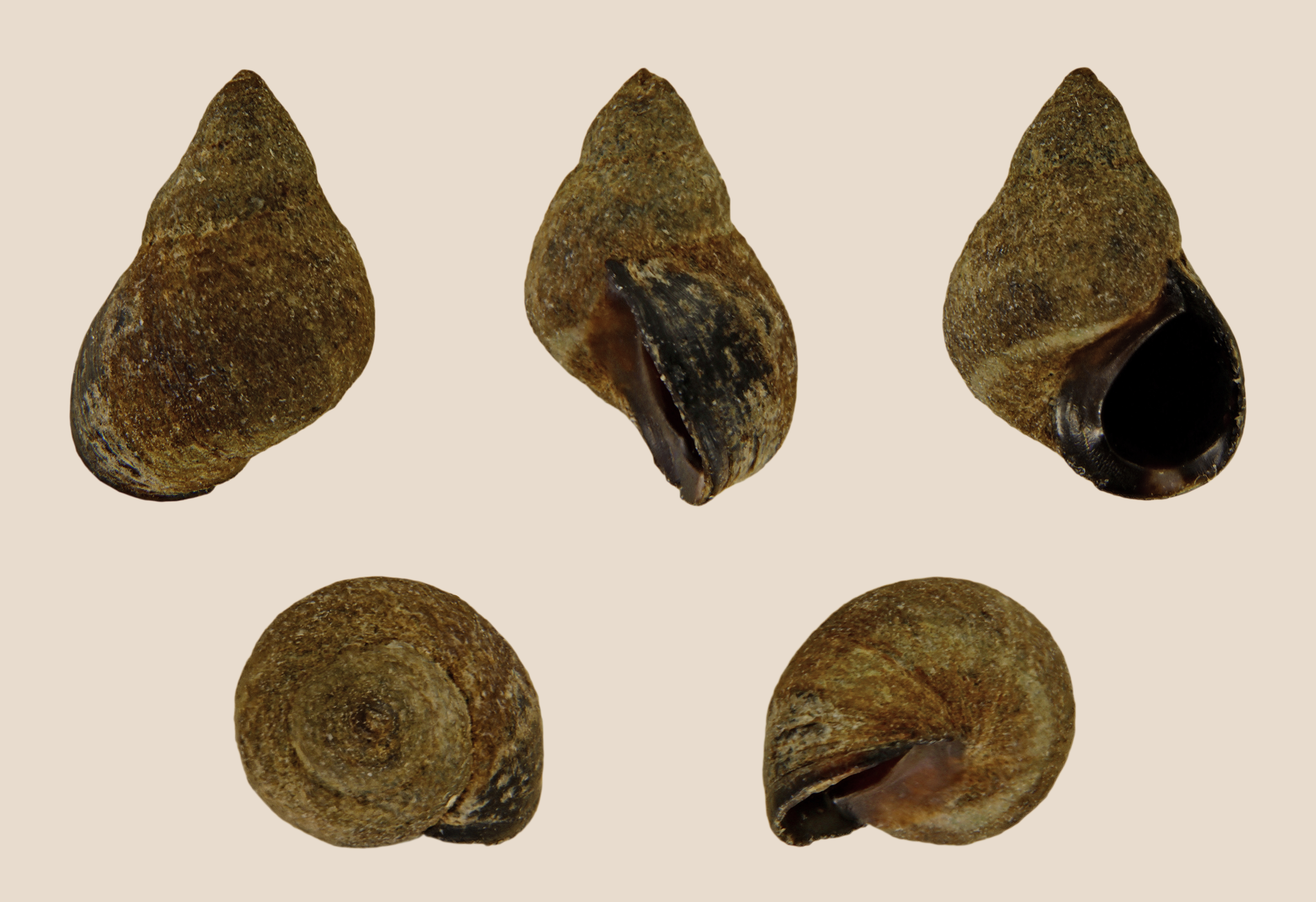 Small Periwinkle; Length 0.7 cm; Originating from Urbanizació s’Estanyol, Majorca, Spain 39°44′2.01″N 3°15′30.51″E / 39.7338917°N 3.258475°E; Shell of own collection, therefore not geocoded. Dorsal, lateral (right side), ventral, back, and front view.